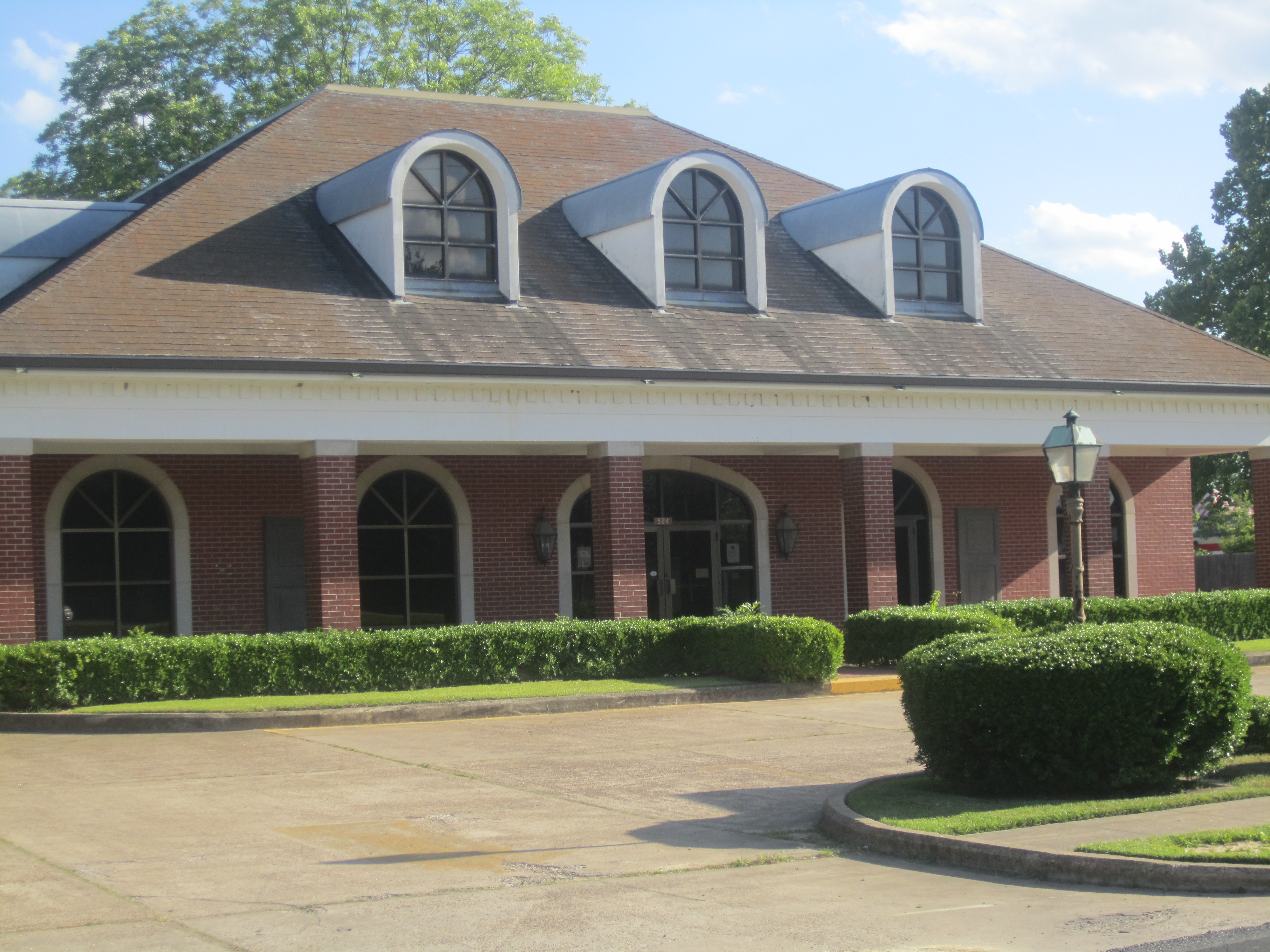 I took photo of Morehouse Parish library in Bastrop, LA, with Canon camera.